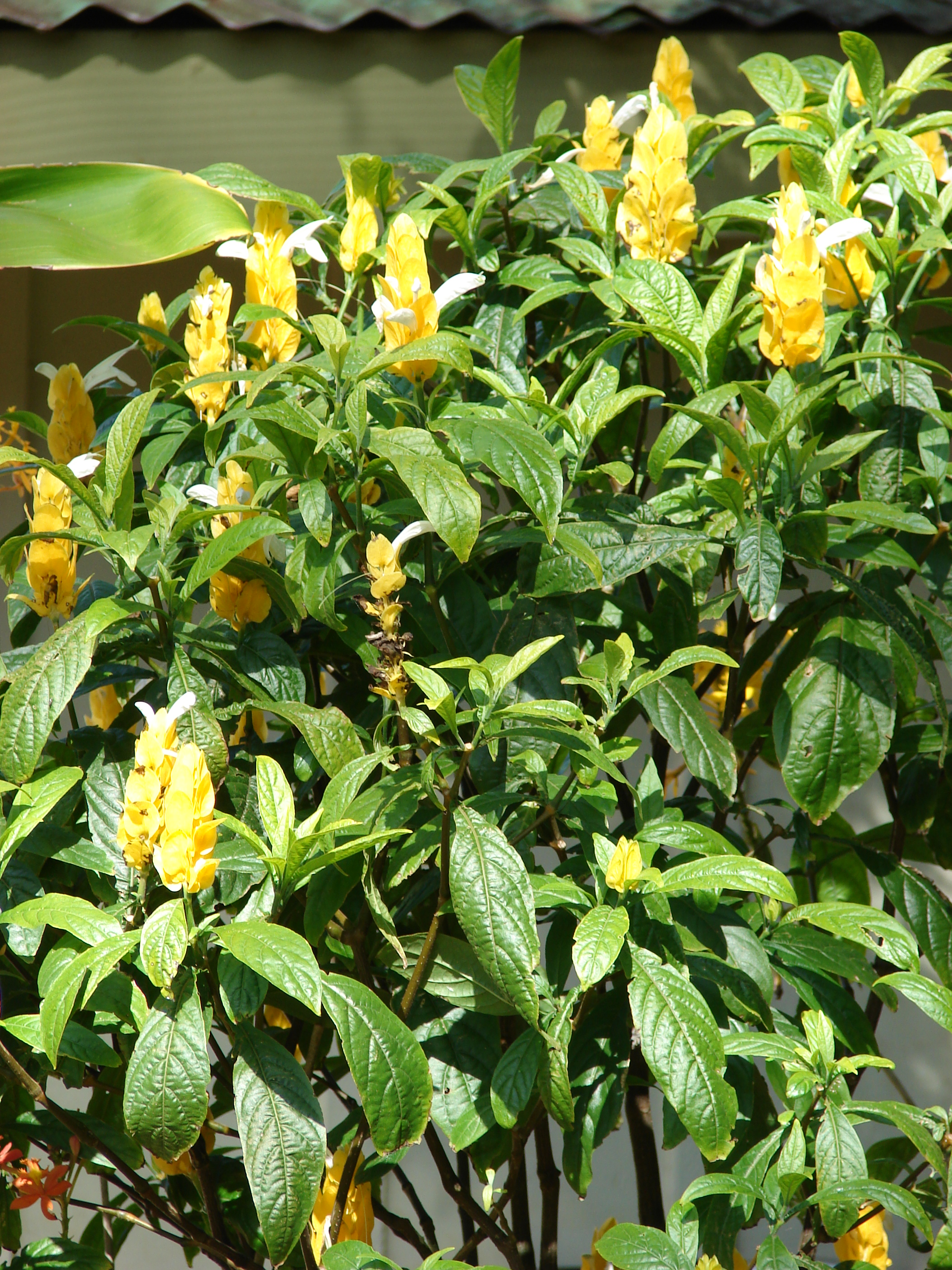 Pachystachys lutea (flowering habit). Location: Lanai, Lanai City